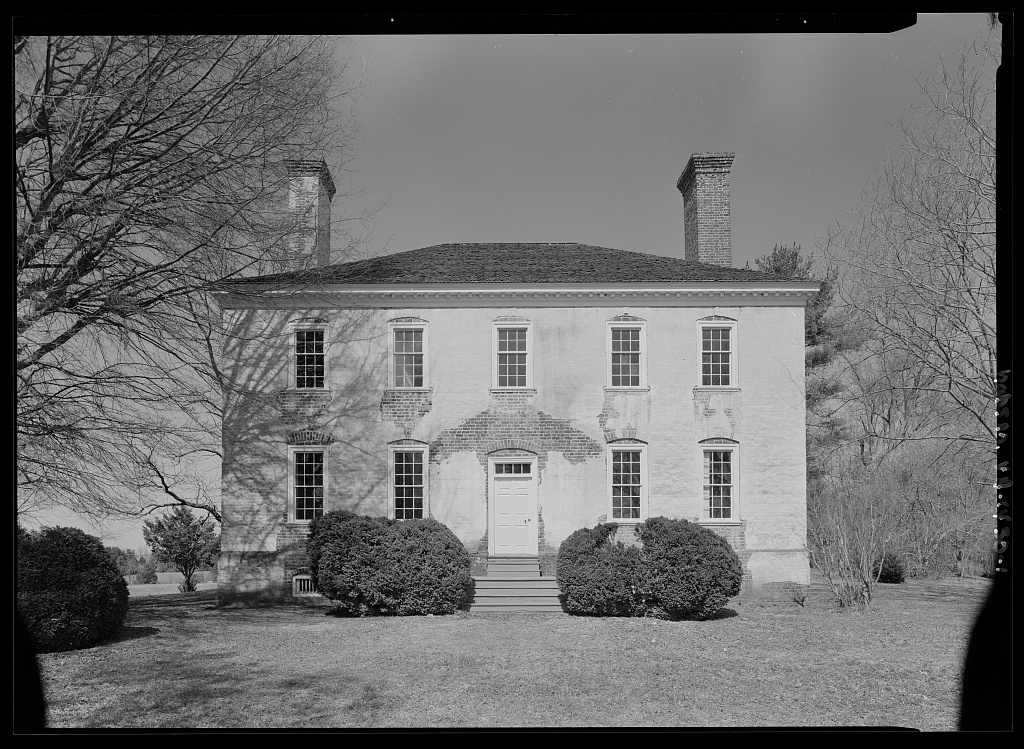 Memorial Foundation of the Germanna Colonies in Virginia; Thompson, John; Spotswood, Butler Brayne; Barbour, Mordecai; Hansbrough, James; Grayson, Cary T; Arzola, Robert, architect; Dolinsky, Paul, Chief, Historic American Landscapes Survey; Stoyko, Greta, field team; Stoyko, Greta, delineator